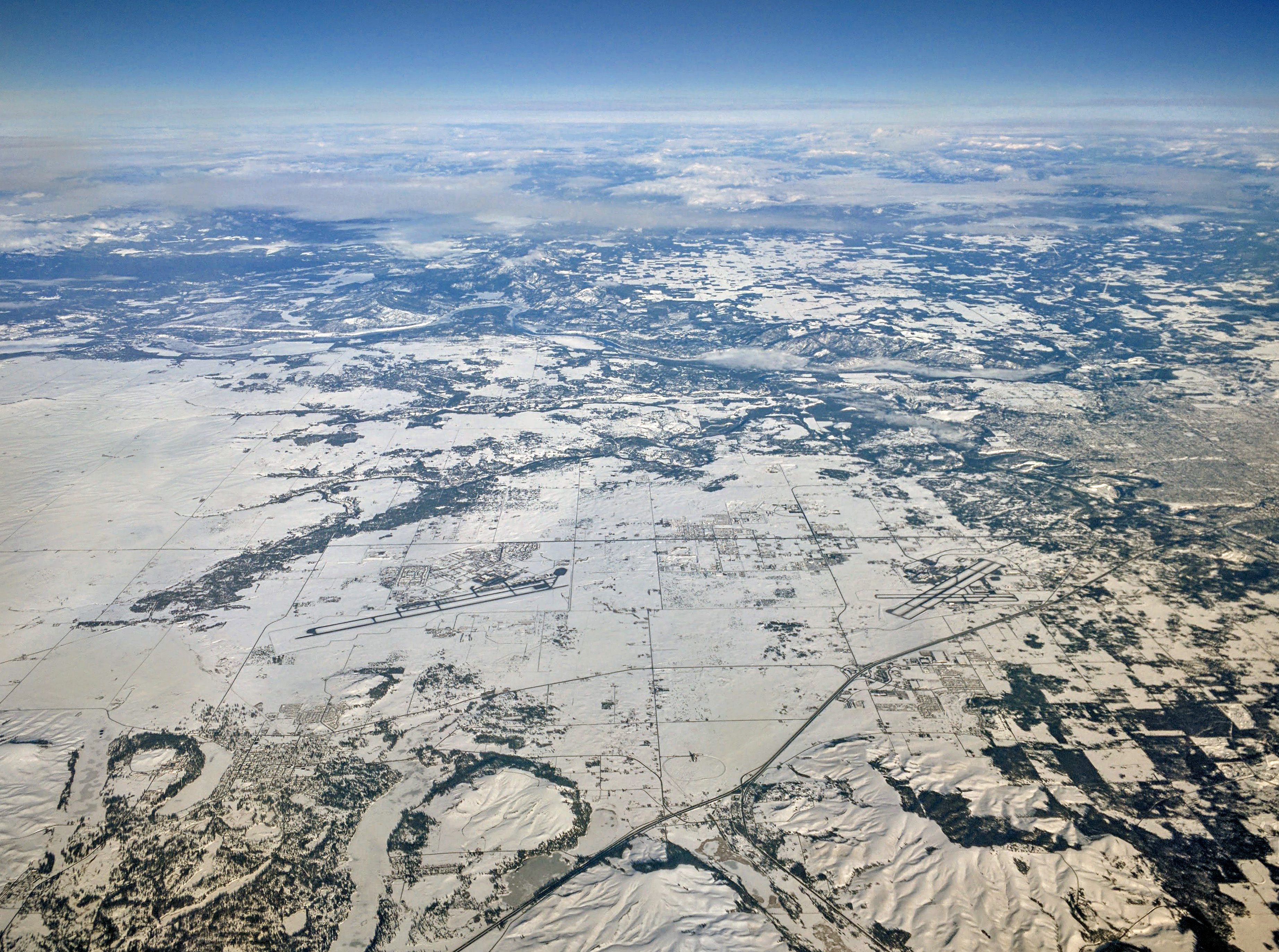 Fairchild Air Force Base (left) and Spokane International Airport (right) with snow, January 2017.